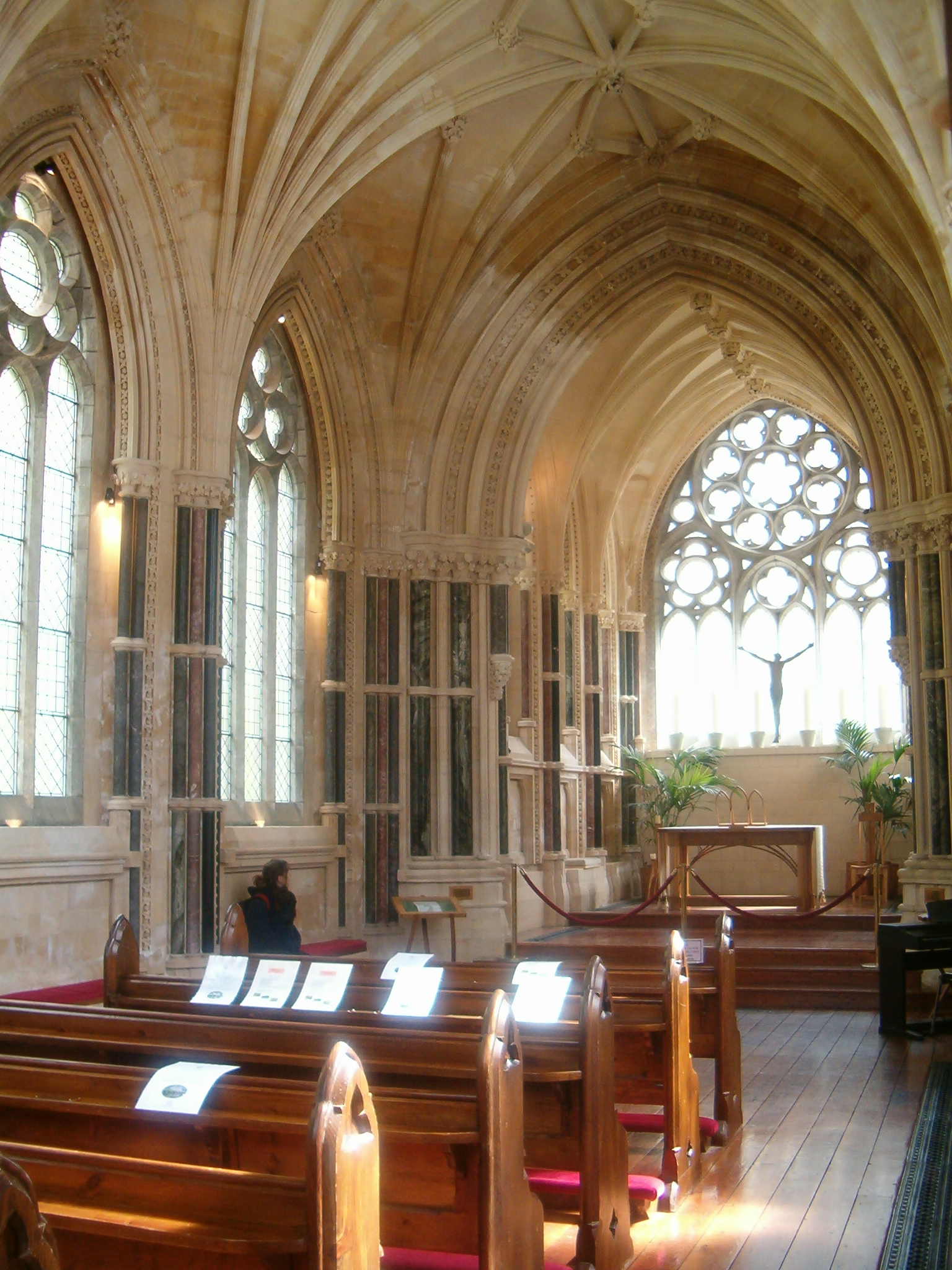 Interior of the Neo-Gothic church of Kylemore Abbey (County Galway, Ireland), erected by Mitchell Henry as a memorial to his wife who died tragically in Egypt in 1874.